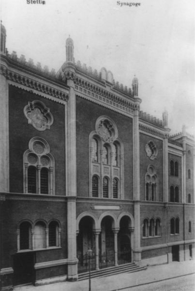 New Synagogue in Szczecin